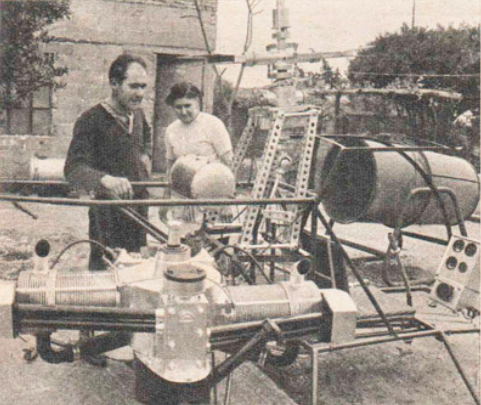 Augusto Cicaré and his mother in front of the Cicaré 1 helicopter